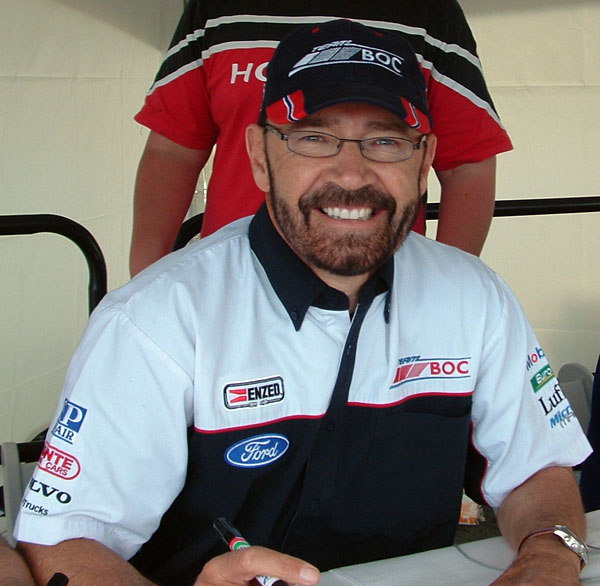 John Bowe, Former V8 Supercar driver.